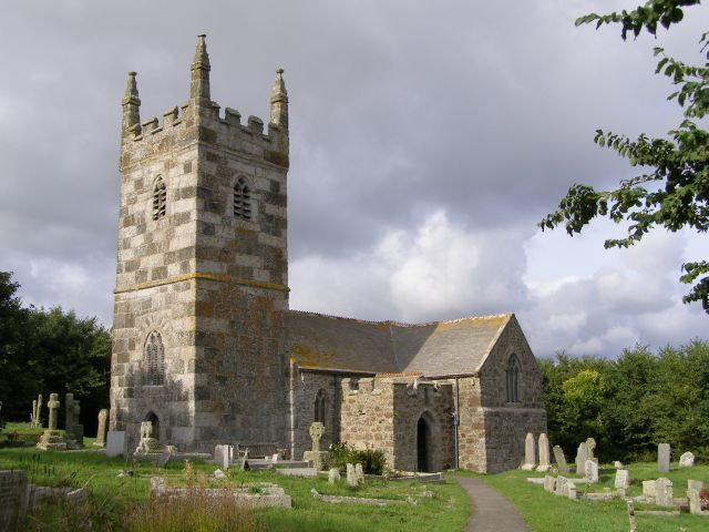 St Wynwallow's Church, Landewednack. This is the parish church of the most southerly parish on the British mainland - Landewednack - which also means that it is the most southerly parish church on the British mainland. Other claims to fame are that here was preached the last sermon in the Cornish language (in 1670). The fabric of the building spans many centuries, with a good deal of Victorian restoration. The tower is built from blocks of traditional Lizard stone: granite and serpentine.